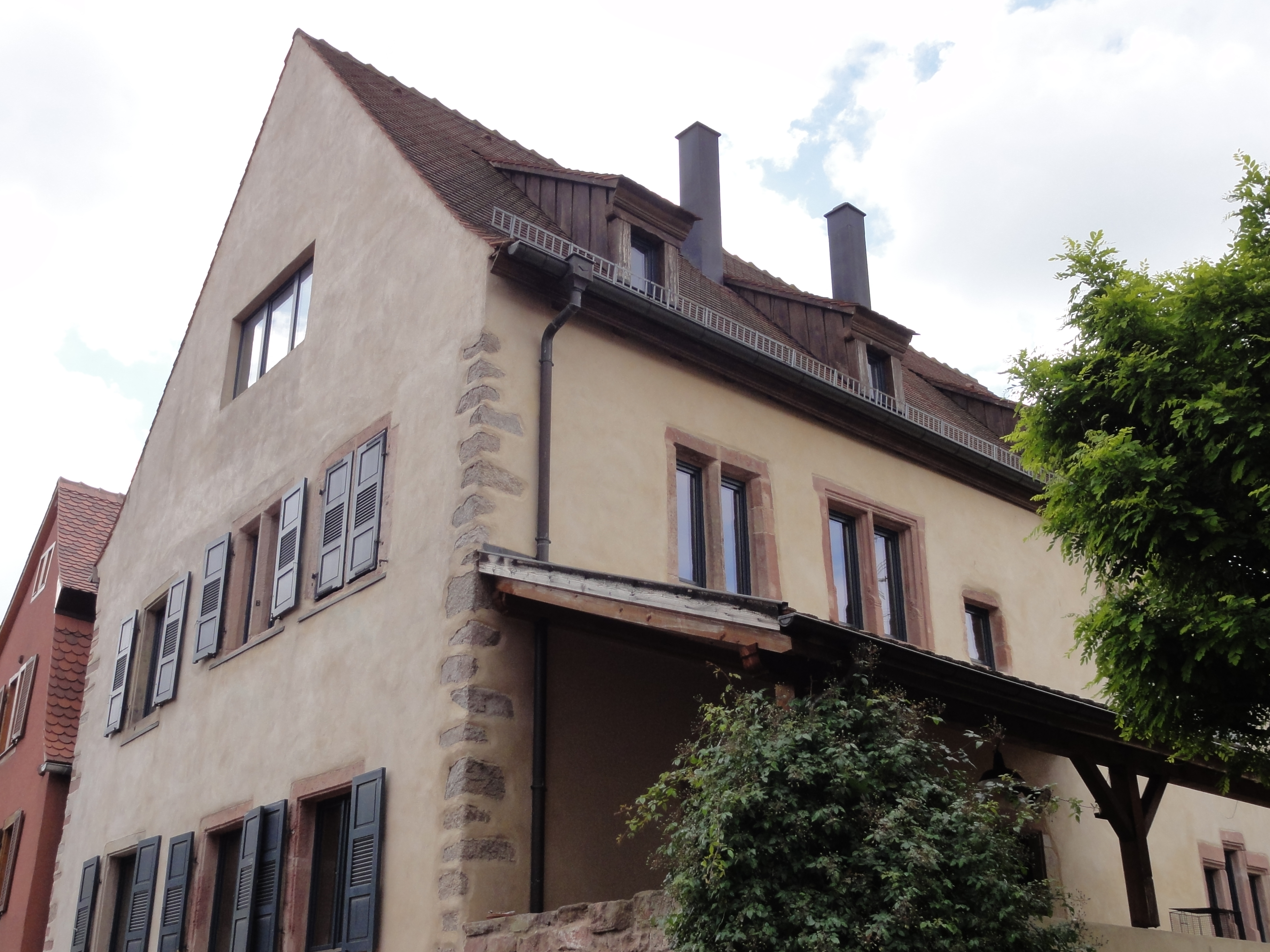 Alsace, Bas-Rhin, Sélestat, Maison natale présumée de Beatus Rhenanus (XVe-XVIe), 8 rue Bornert. It is indexed in the Base Mérimée, a database of architectural heritage maintained by the French Ministry of Culture, under the references PA00084989 and IA00124618 .